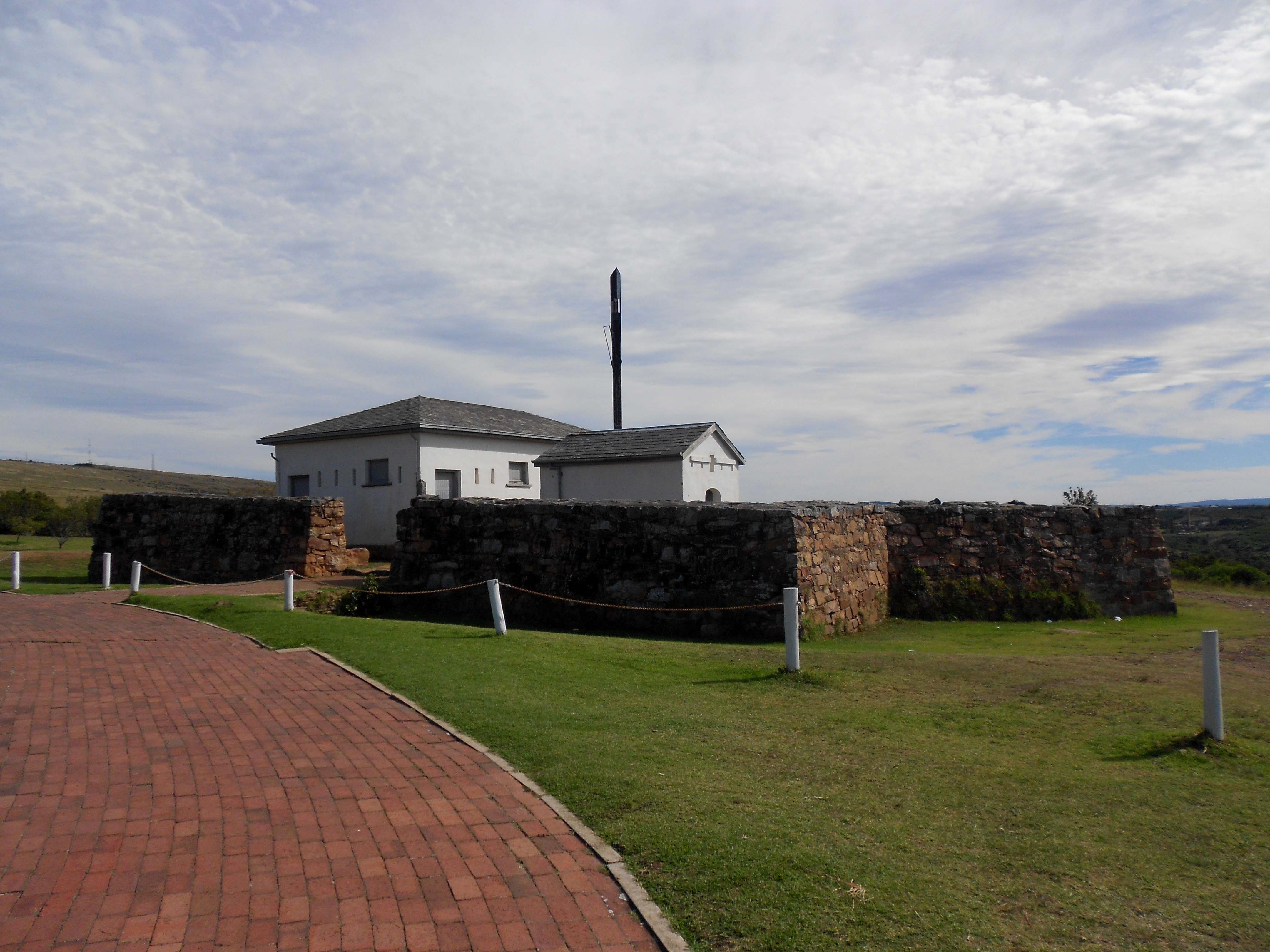 Fort Selwyn, Grahamstown This media shows a South African Protected Site with SAHRA file reference 9/2/003/0068.